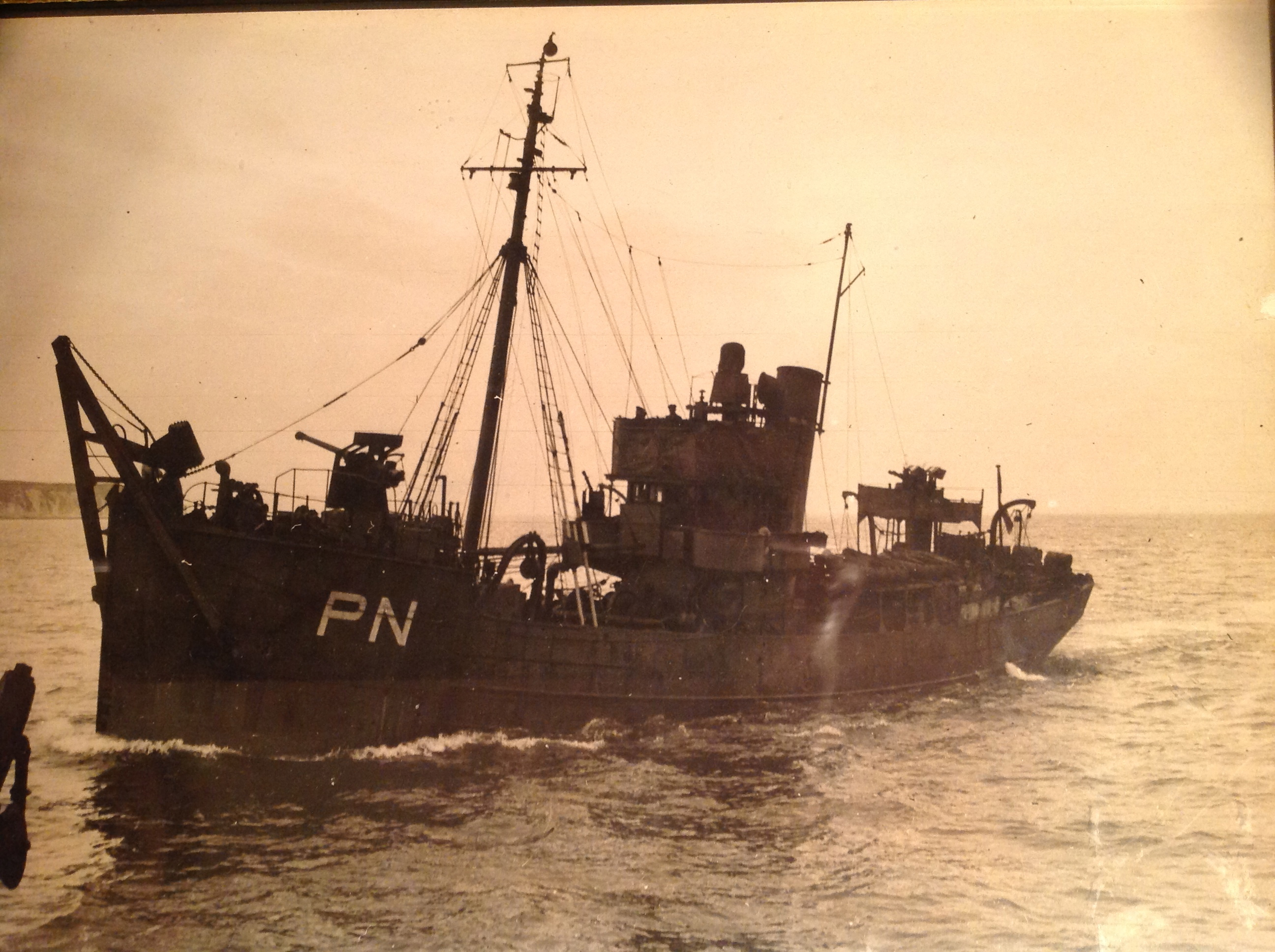 A photo presented to me by my Grandfather, who was first mate on the Piction Castle when it was a minesweeper during the Second World War.